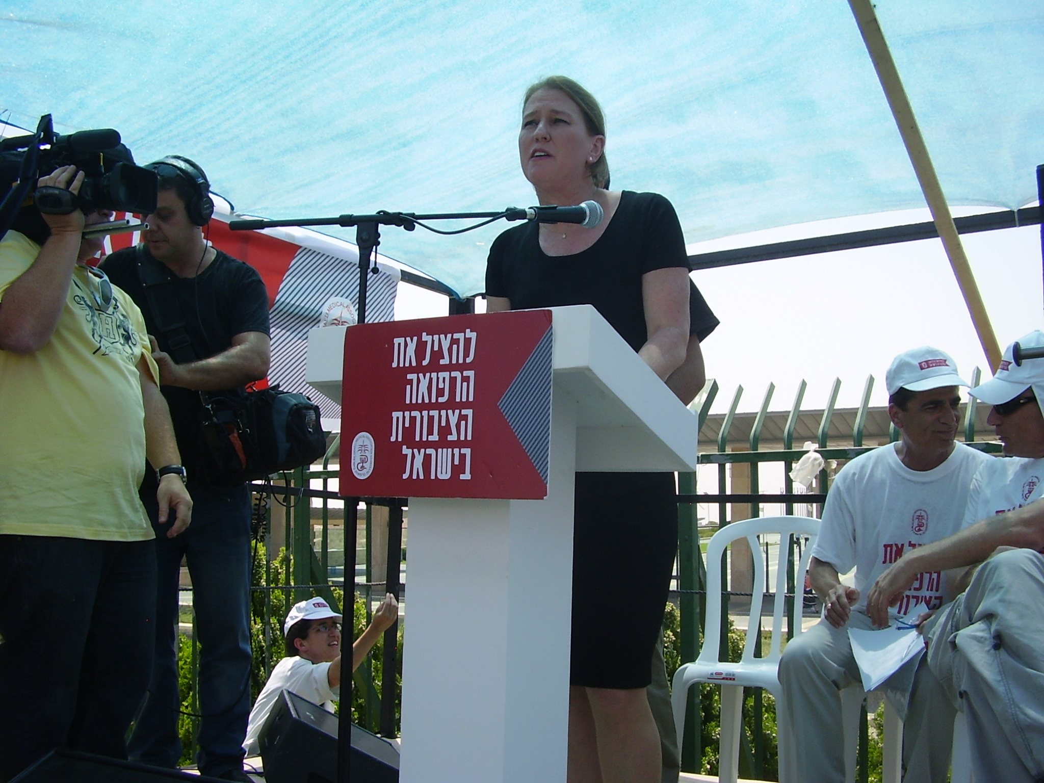 Doctors Protest in Jerusalem -M.K Tzipi Livni